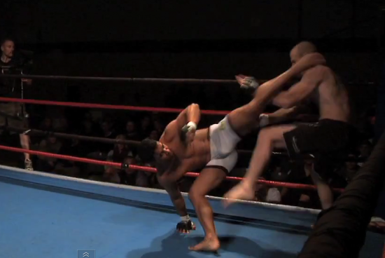 Meia Lua de Compasso